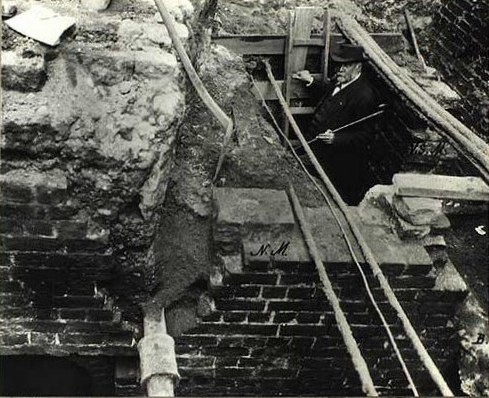 Danish architect and archaeologist Johannes Frederik (Frits) Christian Uldall (1839-1921)